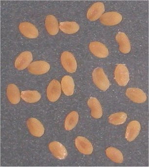 Veronica arvensis seeds